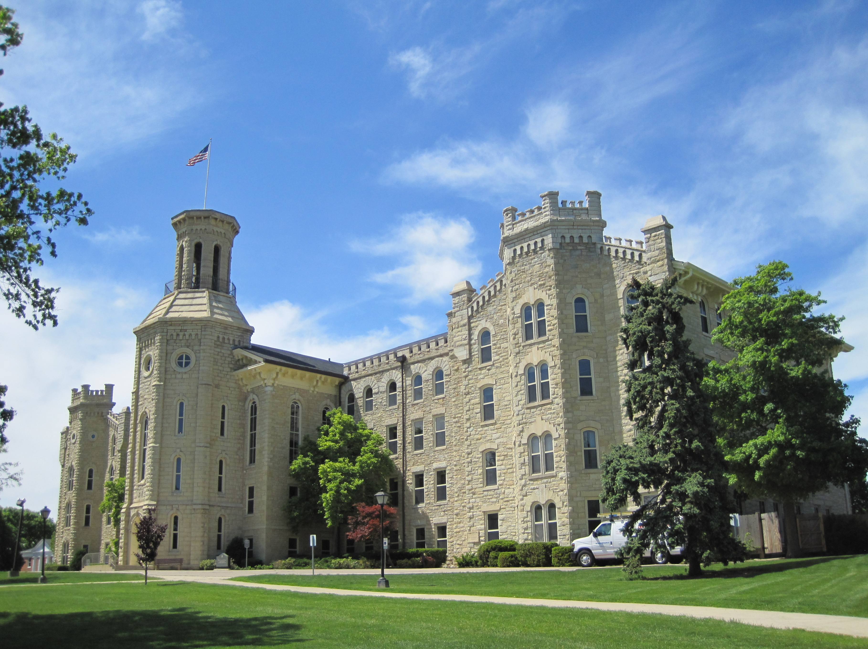 Blanchard Hall at Wheaton College (1927). The building took a whopping 74 years to complete following its dedication in 1853. The building is named for the Blanchard family, who founded the college, and the building is intended to resemble those found at Oxford University.